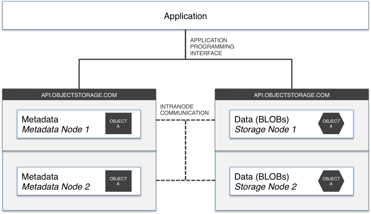 This shows the basic architecture of object storage. It is meant to be generic to cover the many subtle implementations.